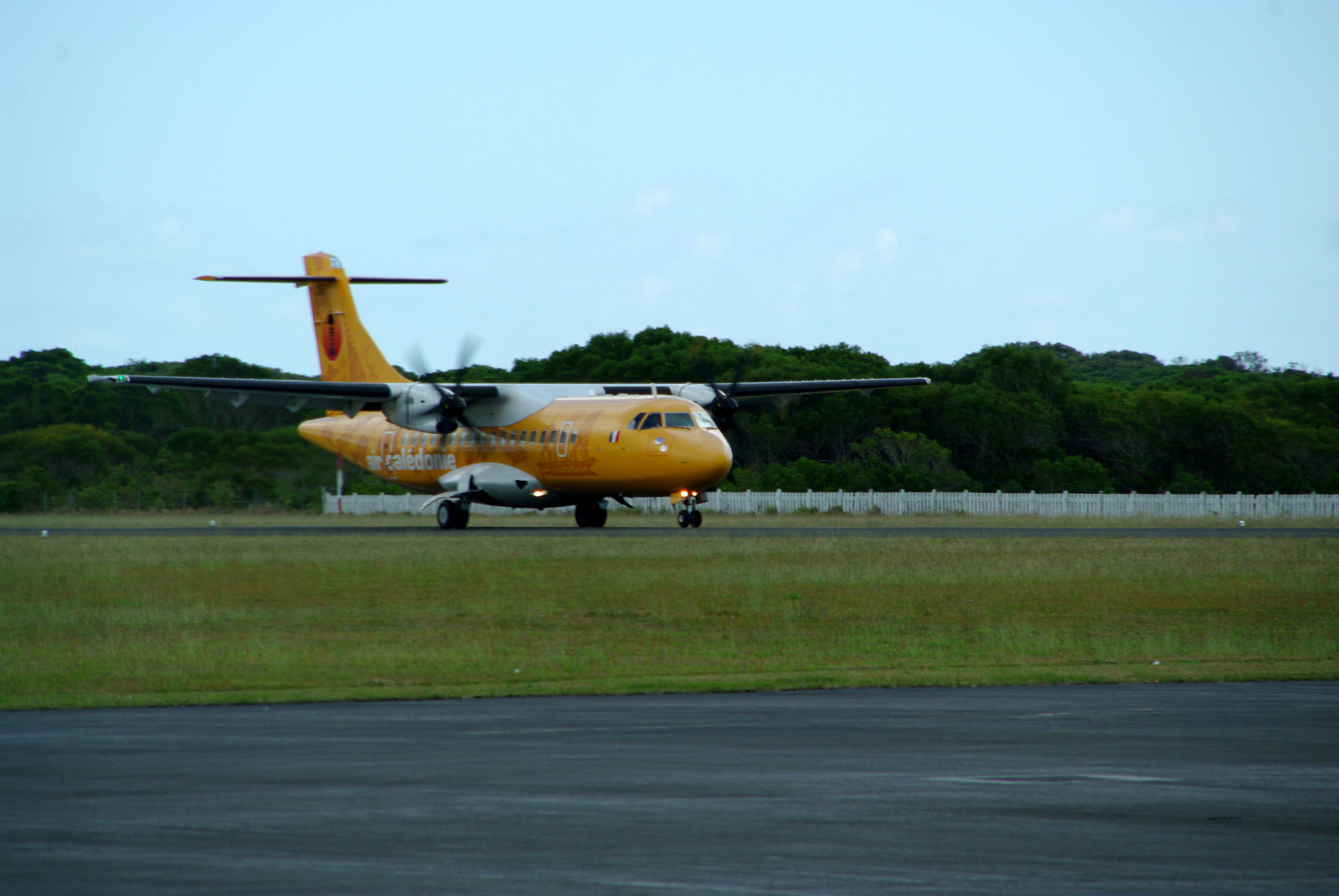 An Aircraft from Air Caledonie is landing at Wanaham Airport, Lifou, New Caledonia